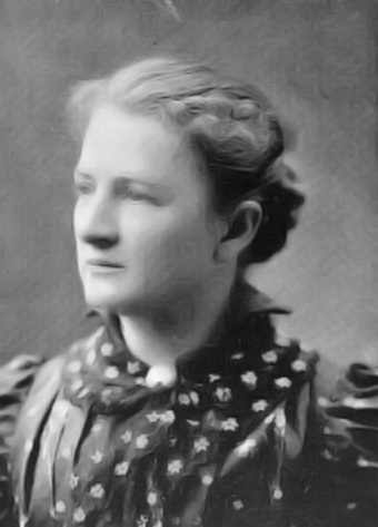 Ellene Alice Bailey, ca. 1893